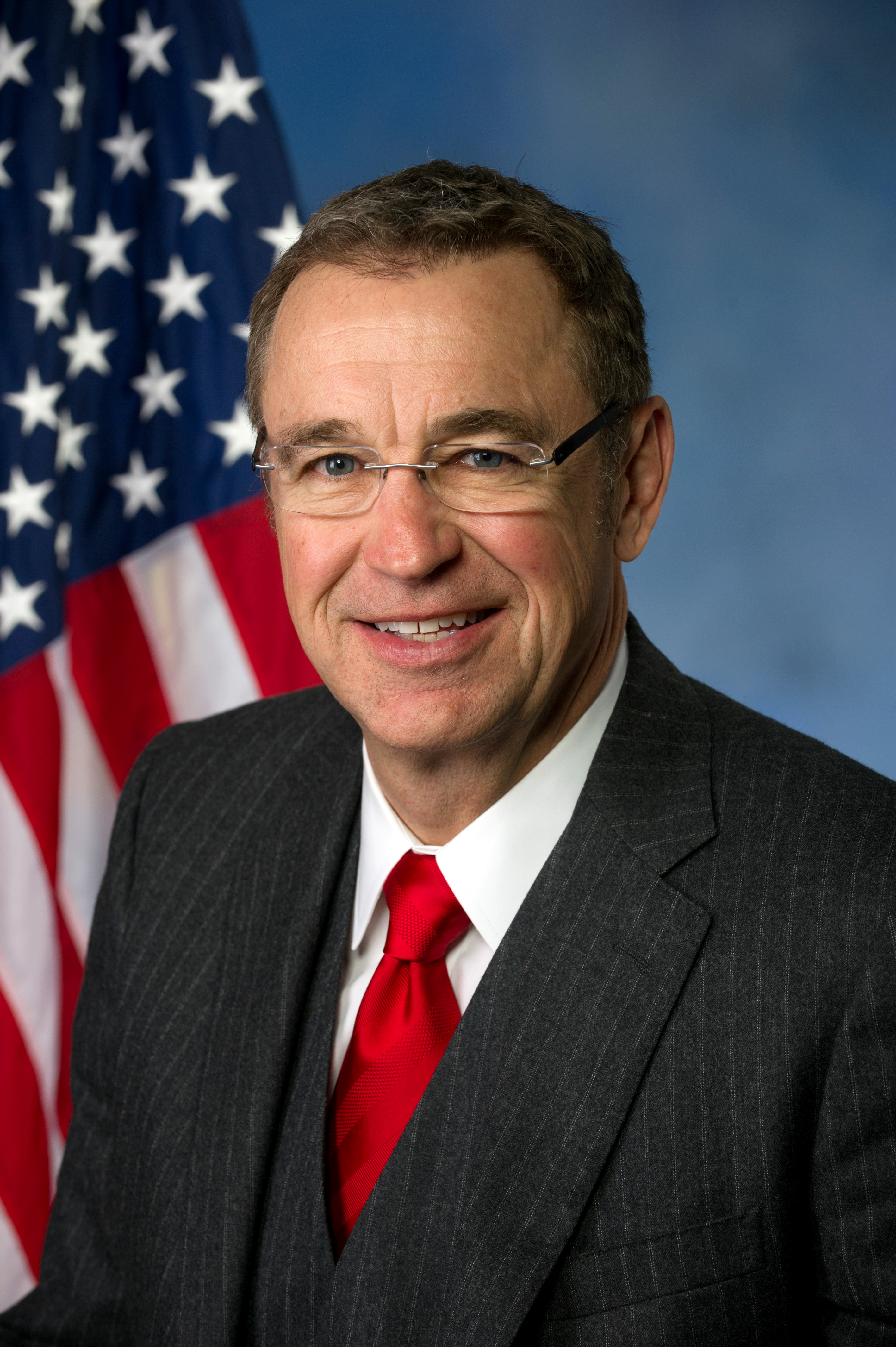 Official portrait of Congressman Matt Salmon (R-AZ).